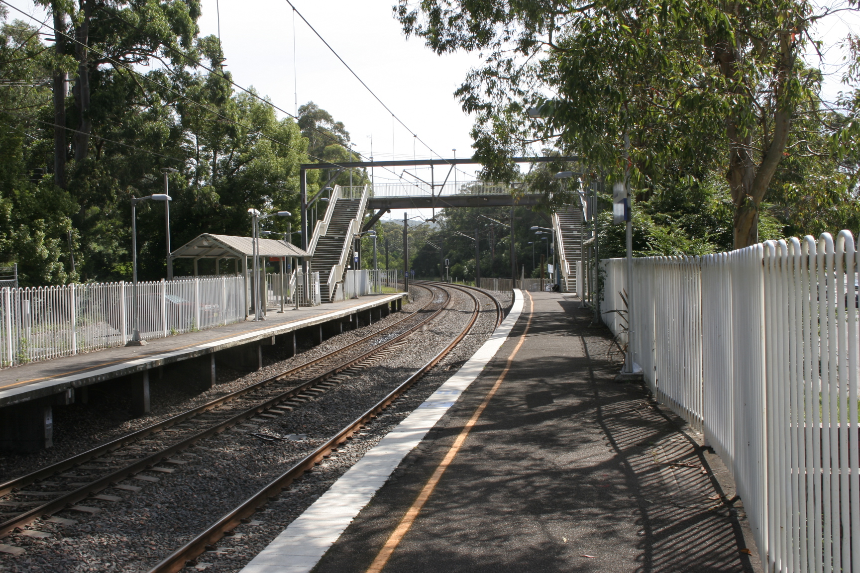 Lisarow railway station